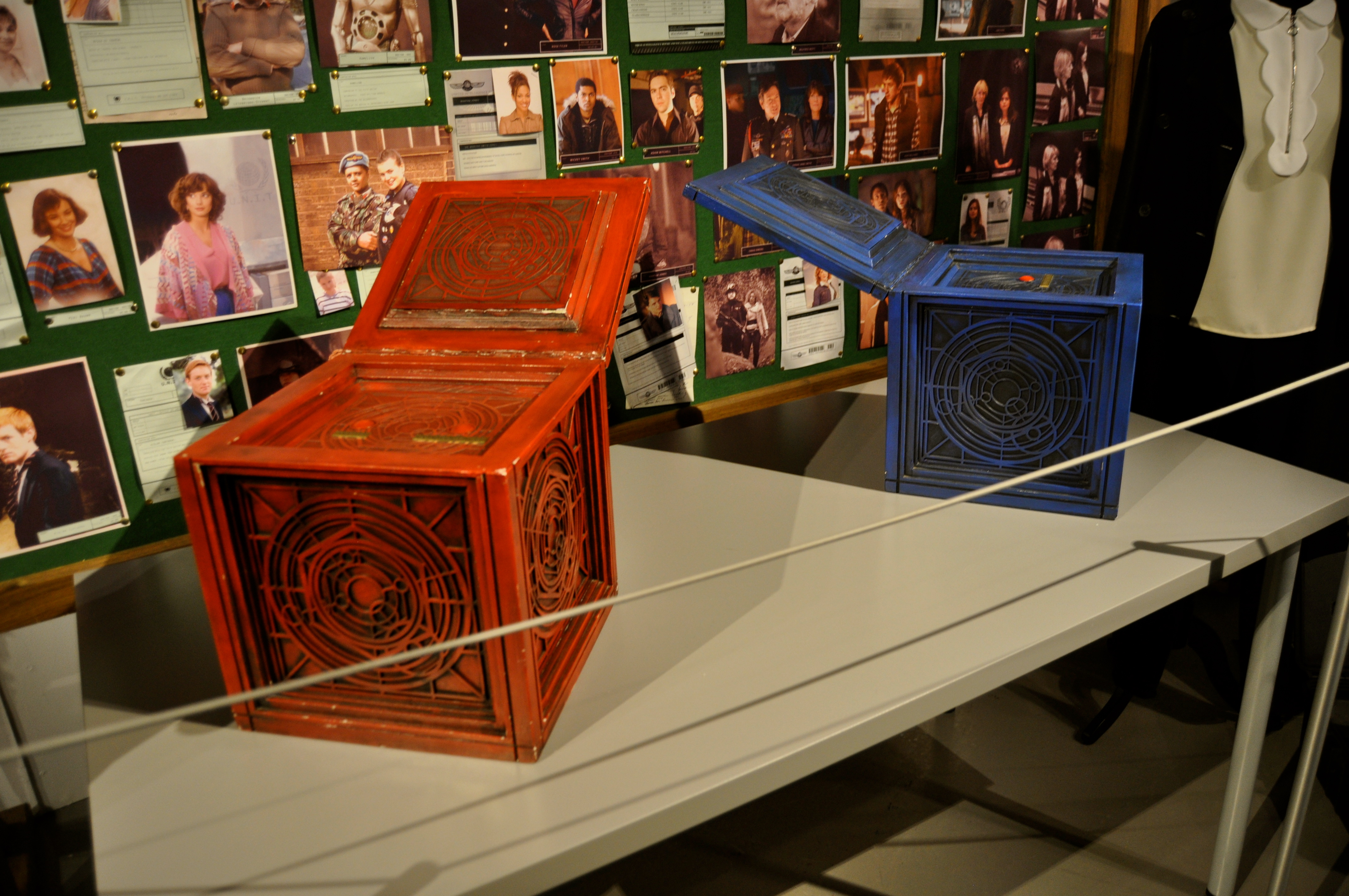 DWE Cardiff Bay, Port Teigr November 2016 Doctor Who Experience